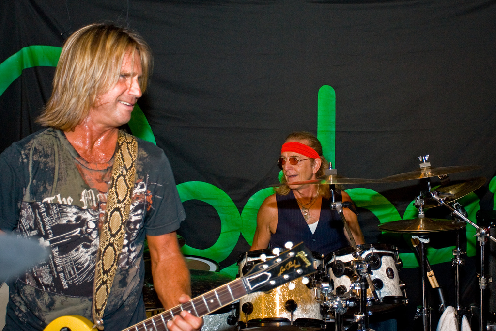 Drummer Roger Earl and current lead singer, Charlie Huhn of Foghat performing at their CD Release Party in NYC for their latest CD "LIVE II".